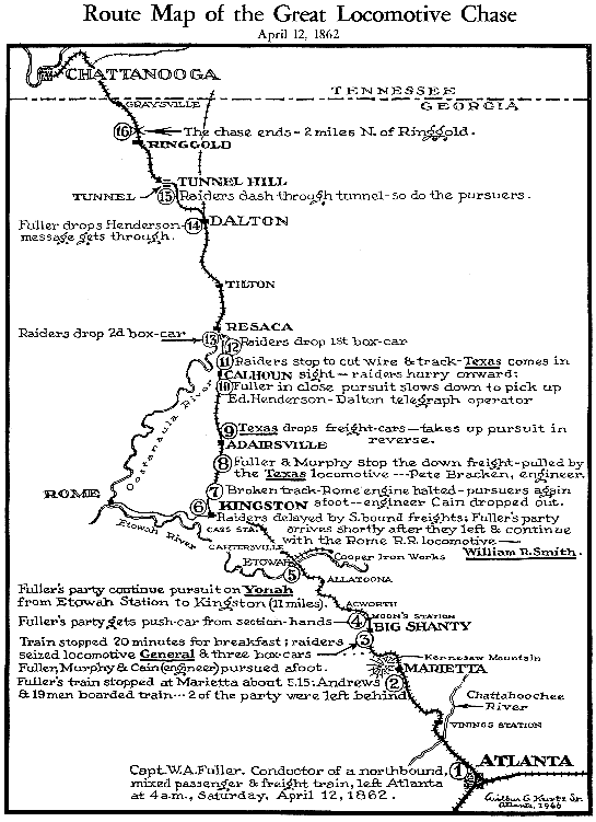 Map of the Great Locomotive Chase of the American Civil War.